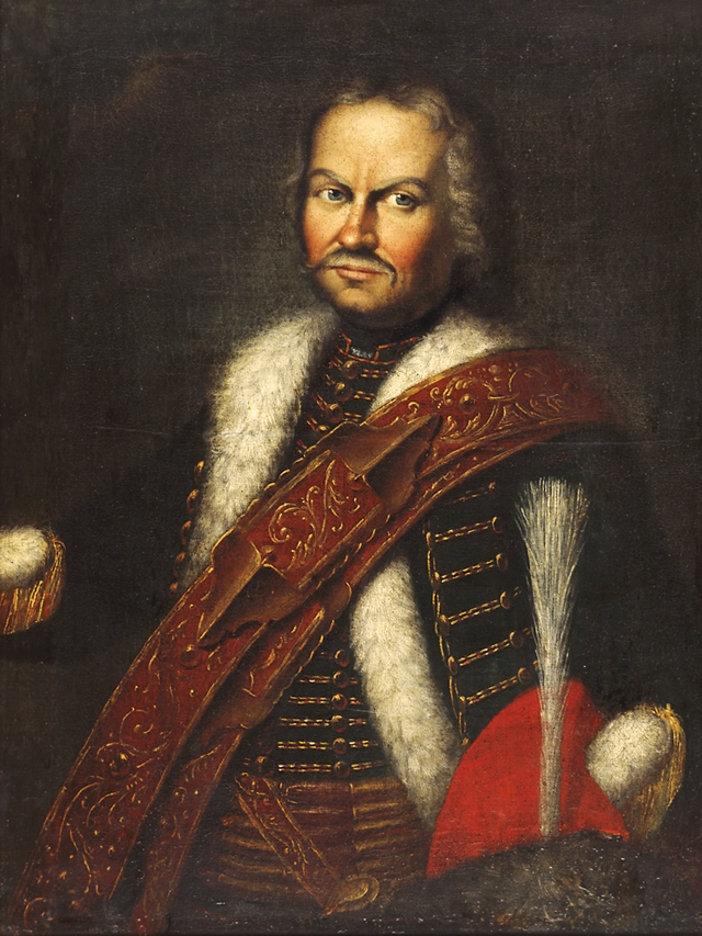 Baron Franz von der Trenck, 1711-1749 , commander of Austrian paramilitary troops in the War for Austrian succession, and Uncle of the prussian Baron Friedrich von der Trenck (1726-1794)